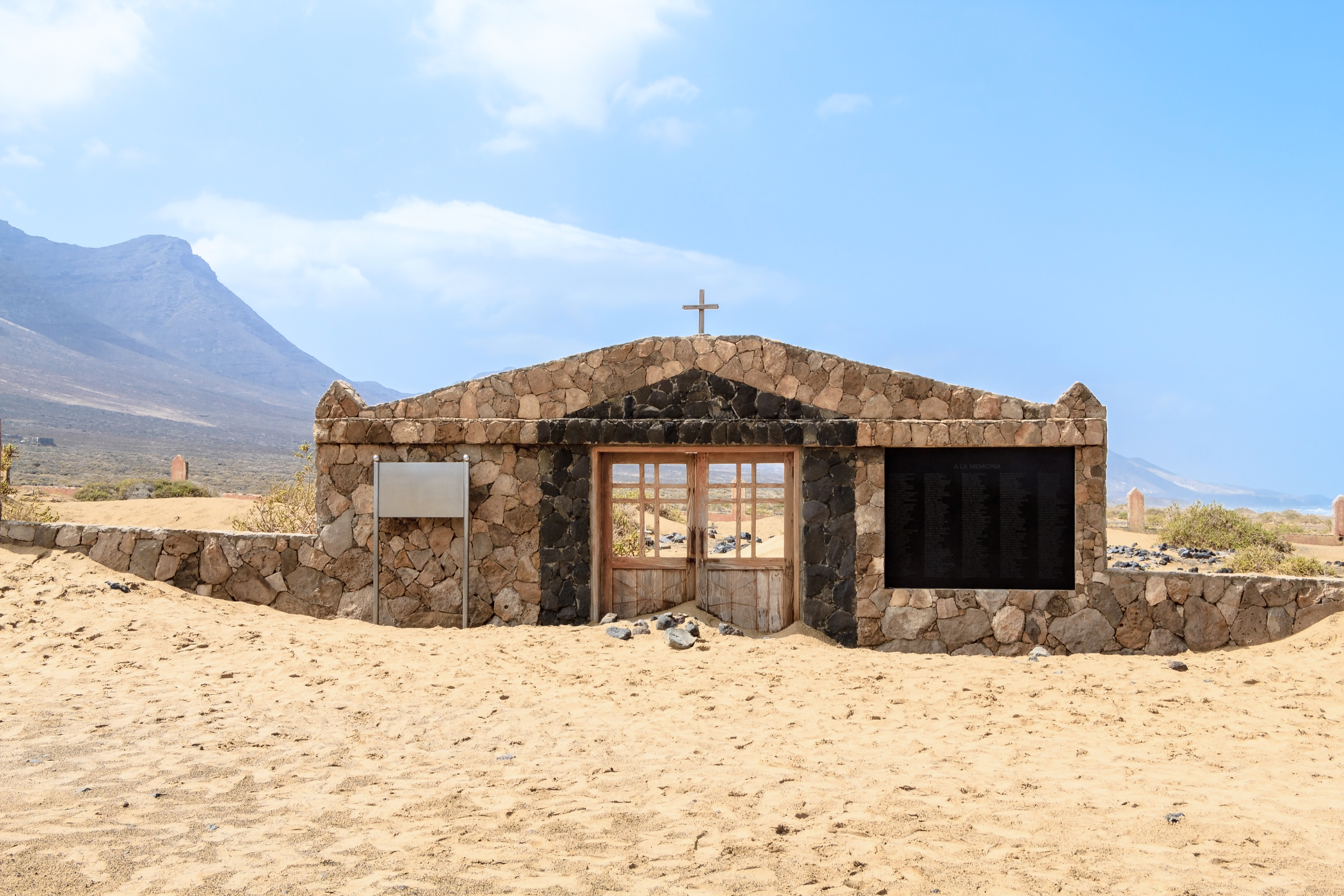 Cemetery of Cofete; Jandía, Fuerteventura, Canary Islands, Spain.